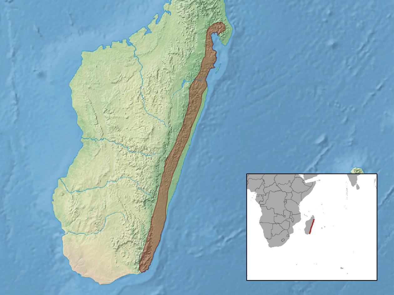 geographic distribution of Amphiglossus punctatus